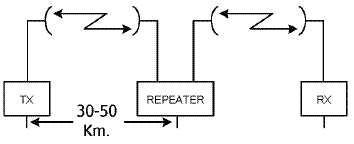 basic of microwave